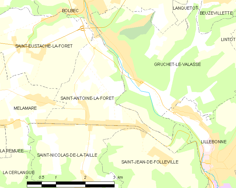 Map of French municipality Saint-Antoine-la-Forêt